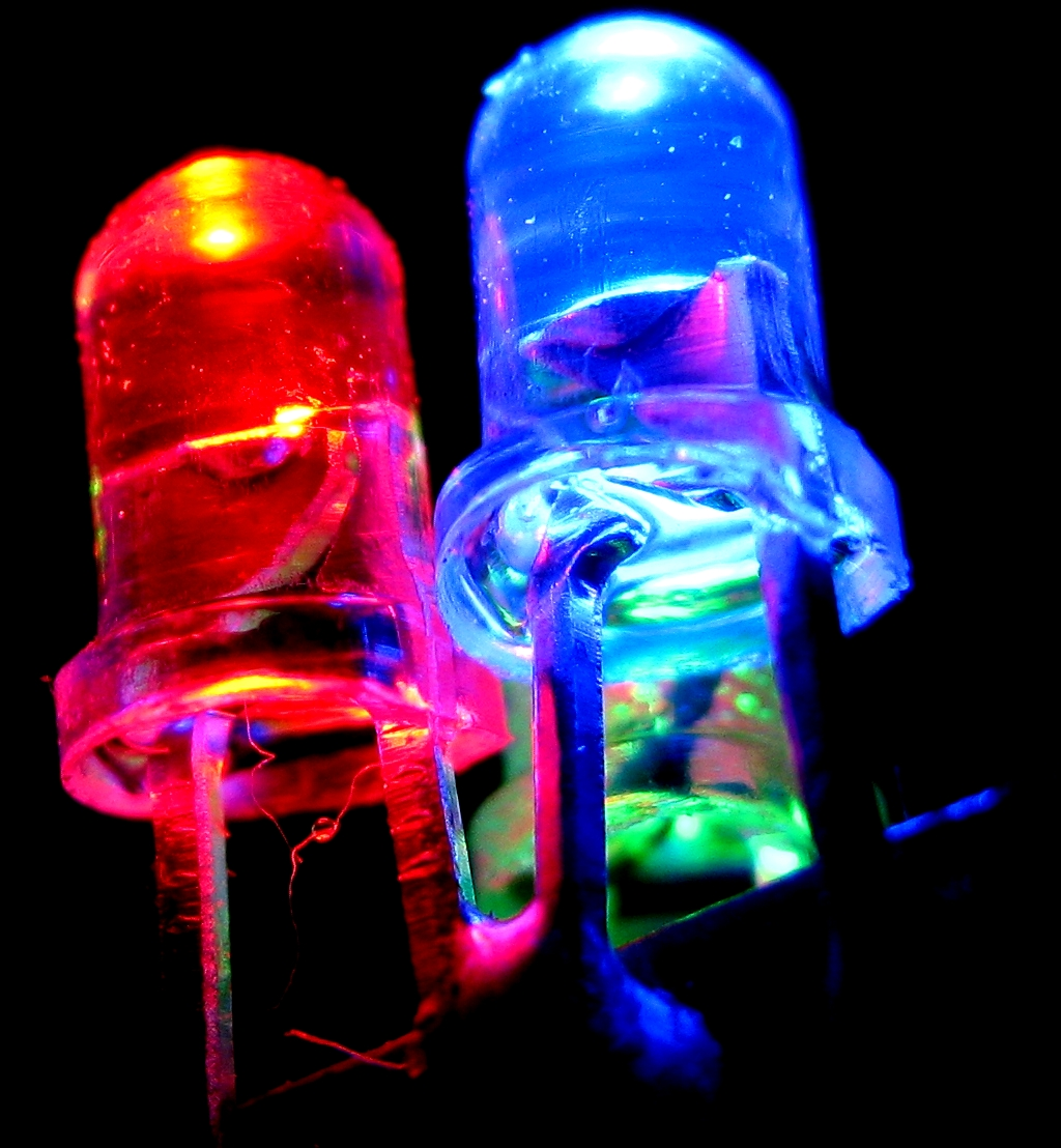 Close up on three LED lights.